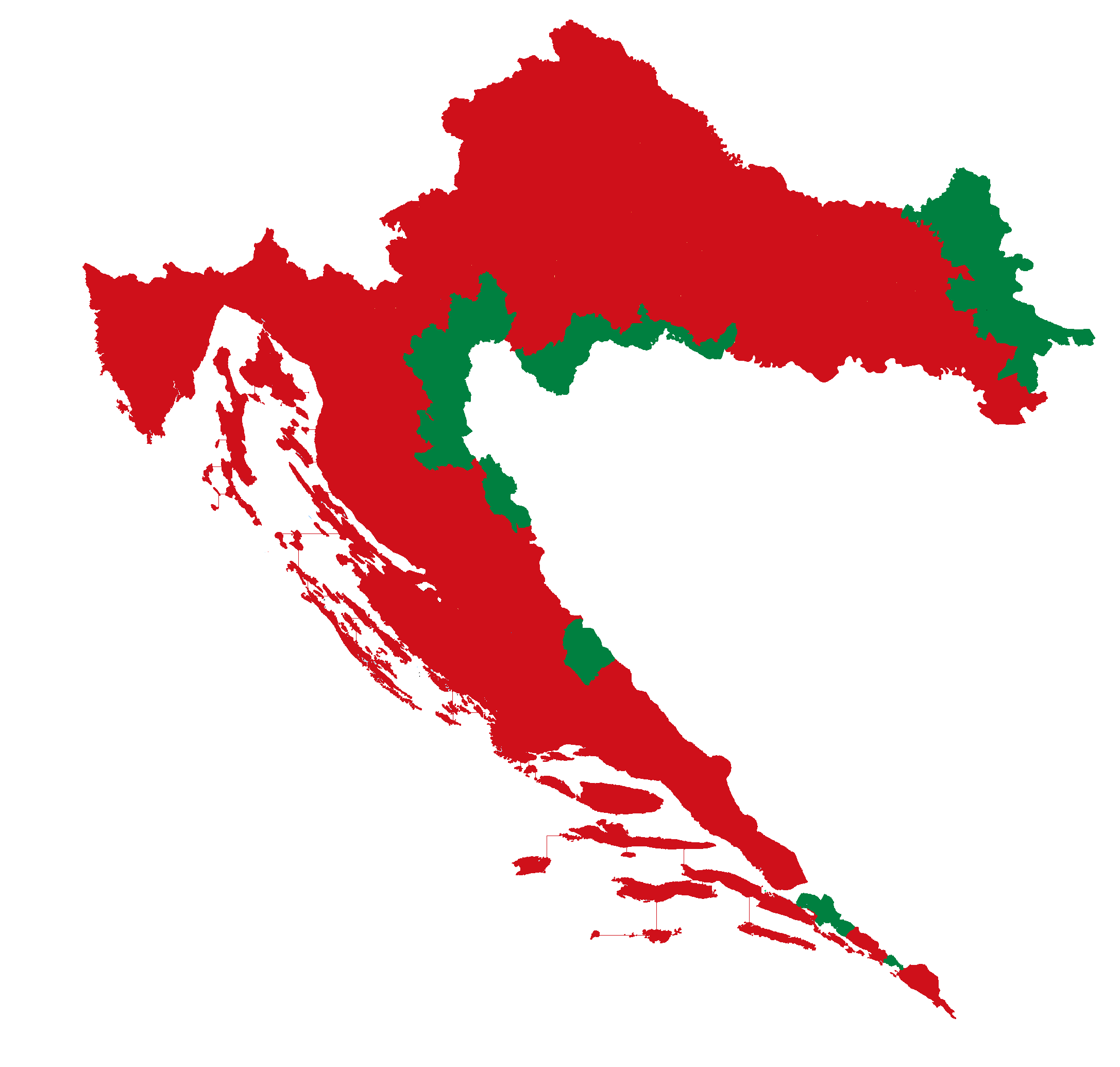 First category of the Areas of Special State Concern in Croatia. Derivative work of the File:Croatia map municipalities.png.